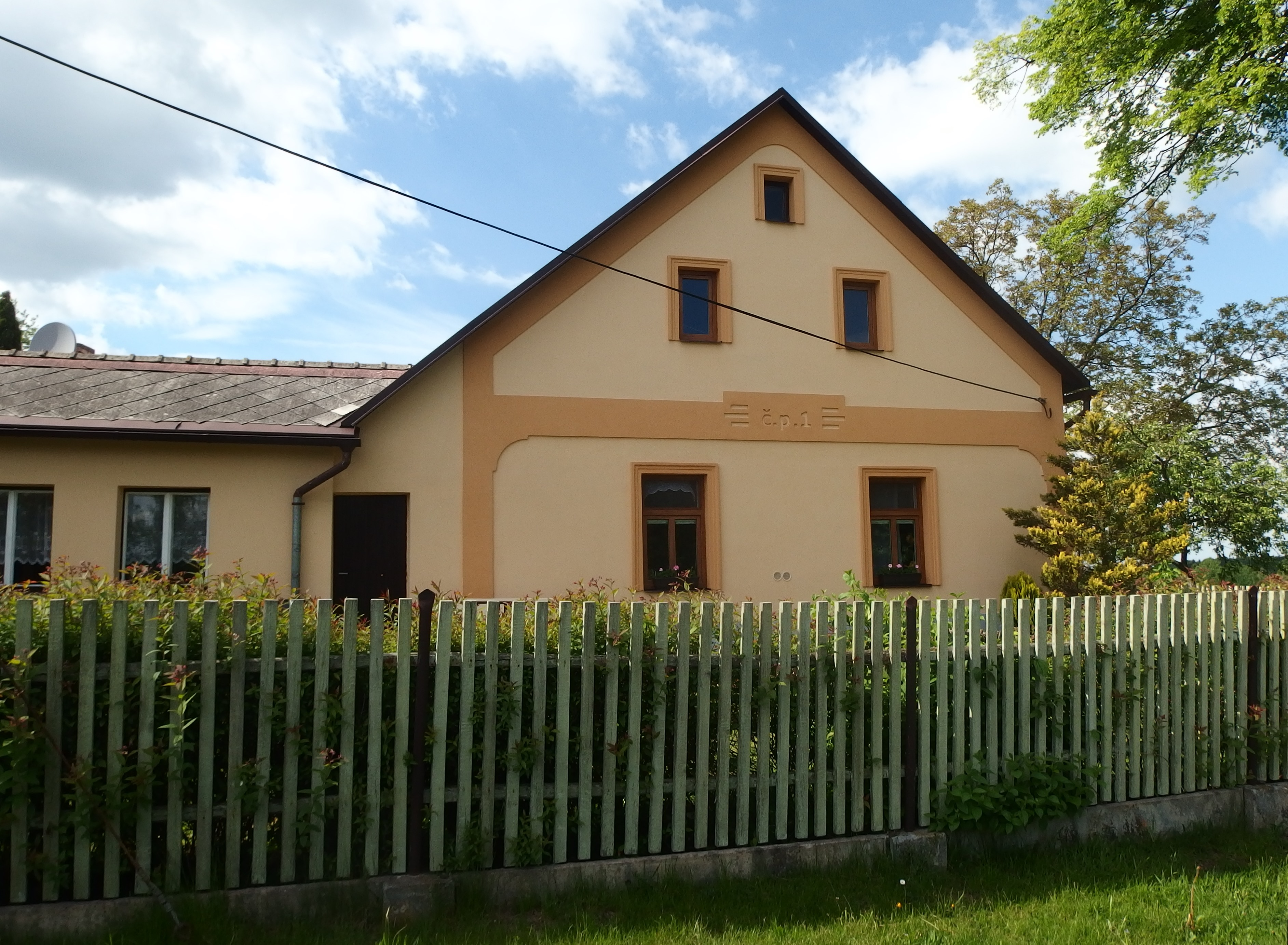 Kamenec u Poličky, Svitavy District, Czechia, part Jelínek.